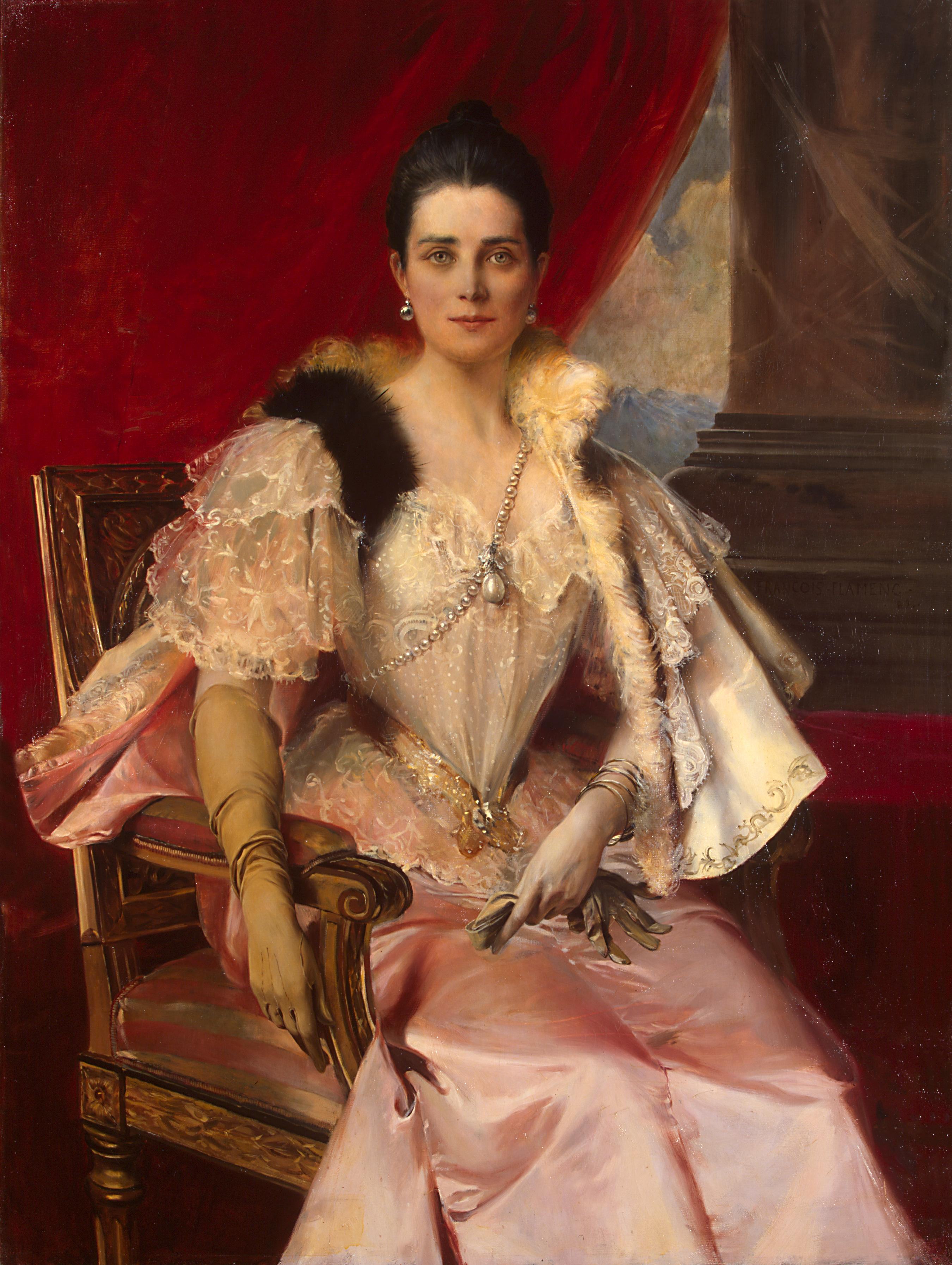 Citation from the official description of the State Hermitage Museum: "In this portrait by the popular contemporary artist Francois Flameng, the princess wears a sumptuous dress decorated with the famous Peregrine Pearl, which once belonged to King Philip II of Spain." This information is incorrect. The princess not wearing the pearl called La Peregrina, but the pearl called La Pelegrina.